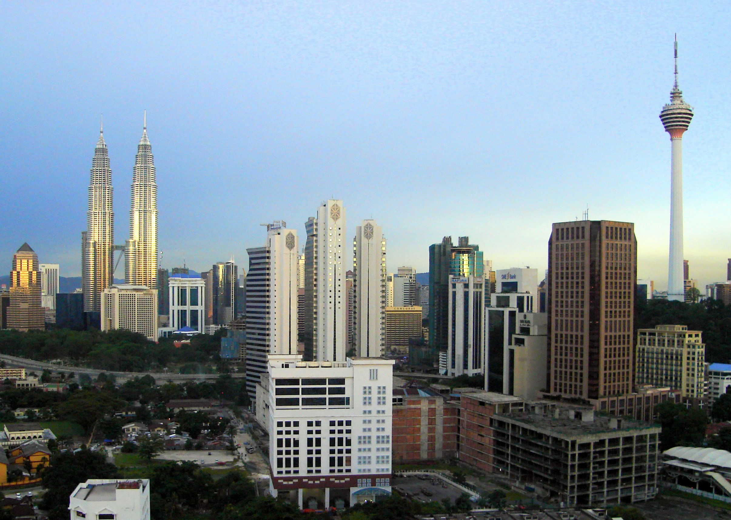 Skyline view of Kuala Lumpur City.